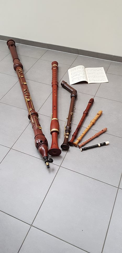 The family of baroque recorders: (left to right) contrabass, great bass, basset, tenor, alto, soprano, sopranino